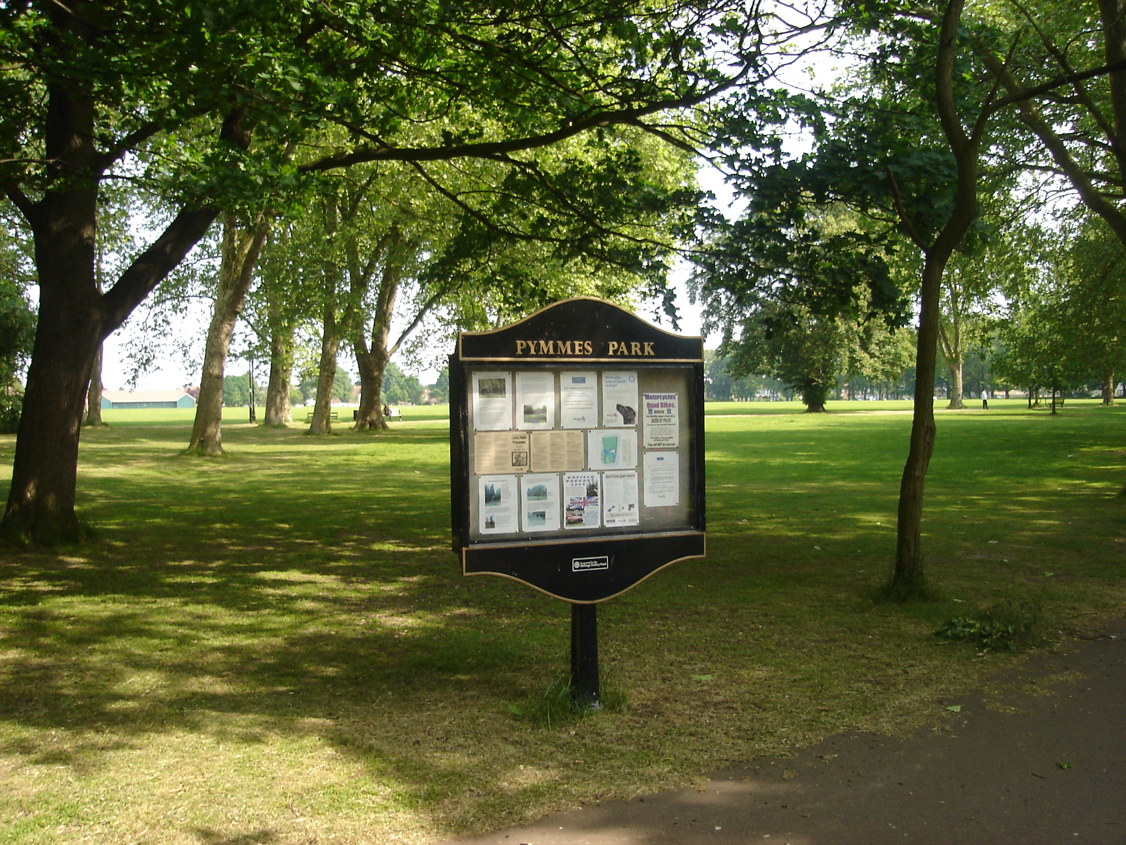 Picture of Pymmes Park